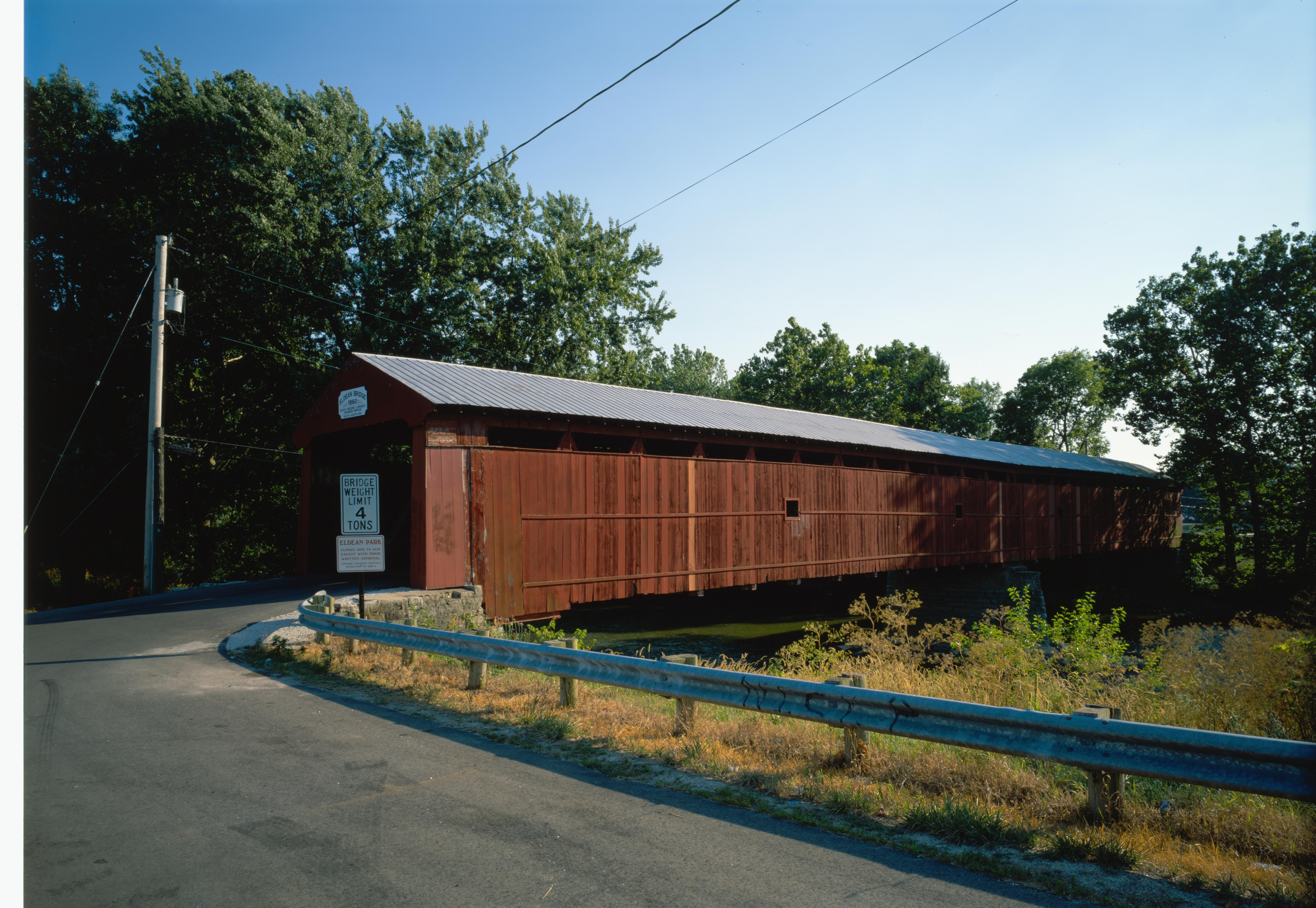 Northern (upstream) side of the Eldean Covered Bridge, which carries County Road 33 over the Great Miami River north of the city of Troy in Concord and Staunton Townships, Miami County, Ohio, United States. Built in 1860, it is listed on the National Register of Historic Places.